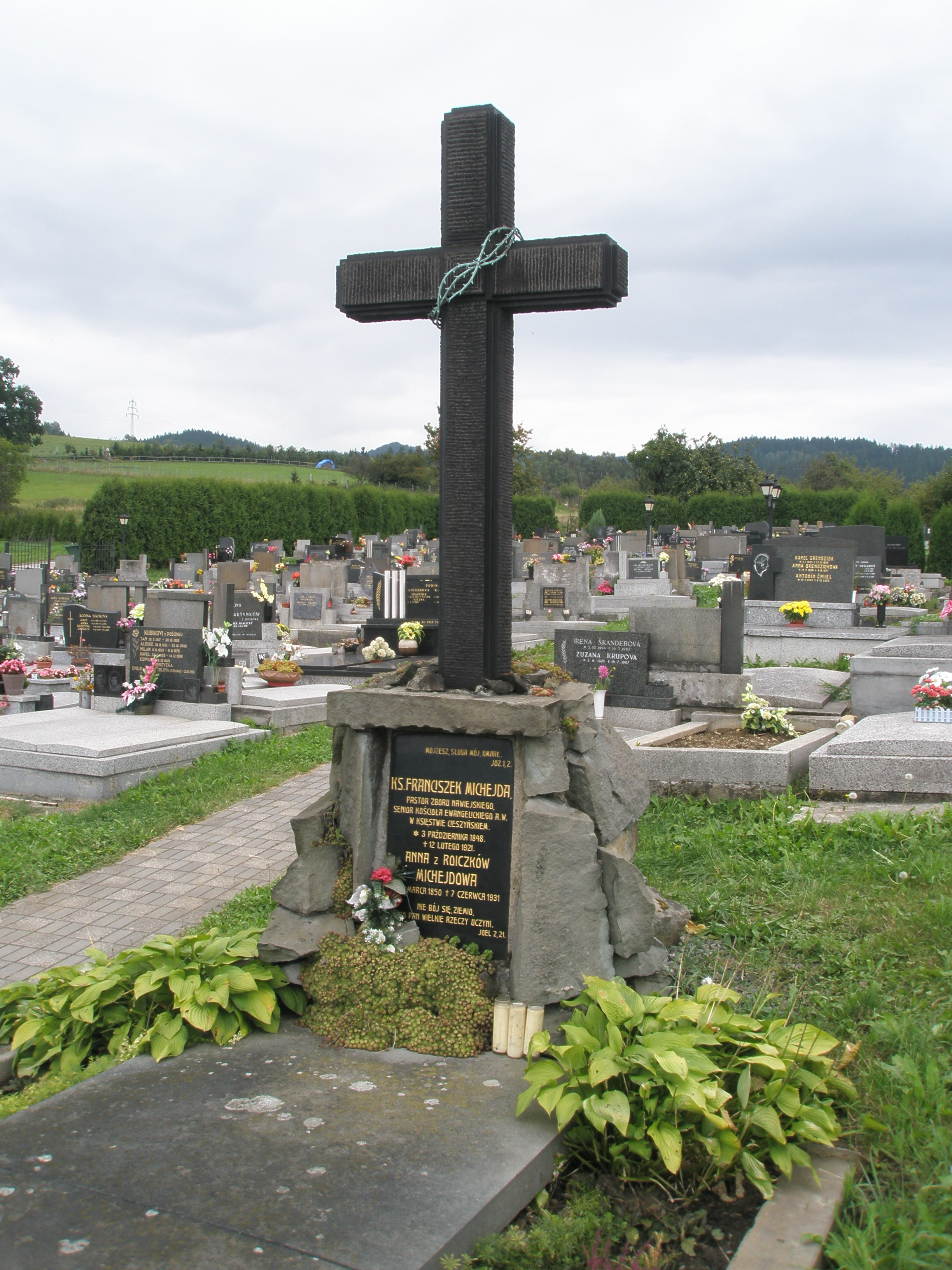 Grave of Lutheran senior Franciszek Michejda in Návsí